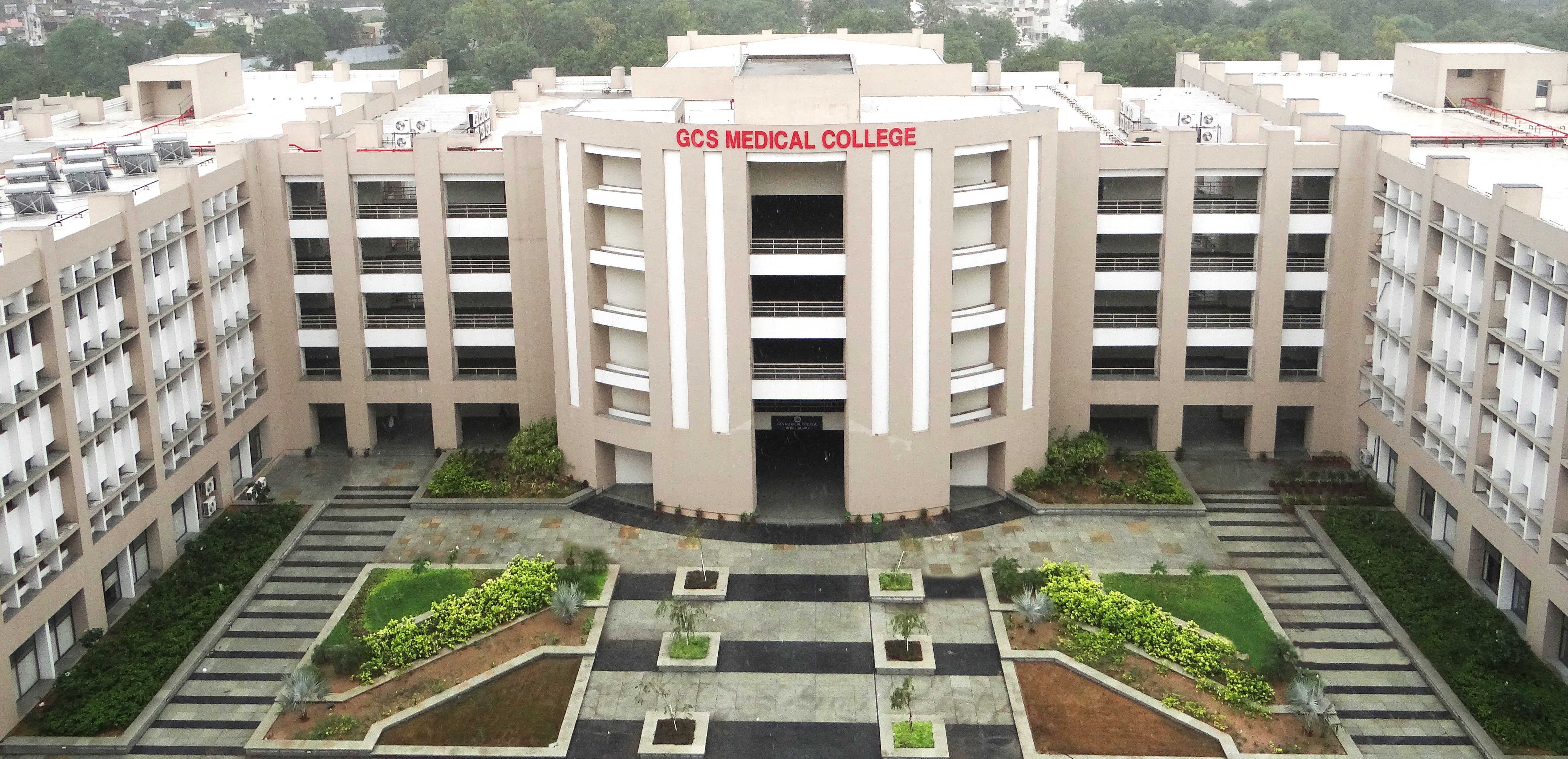 GCS Medical College Building